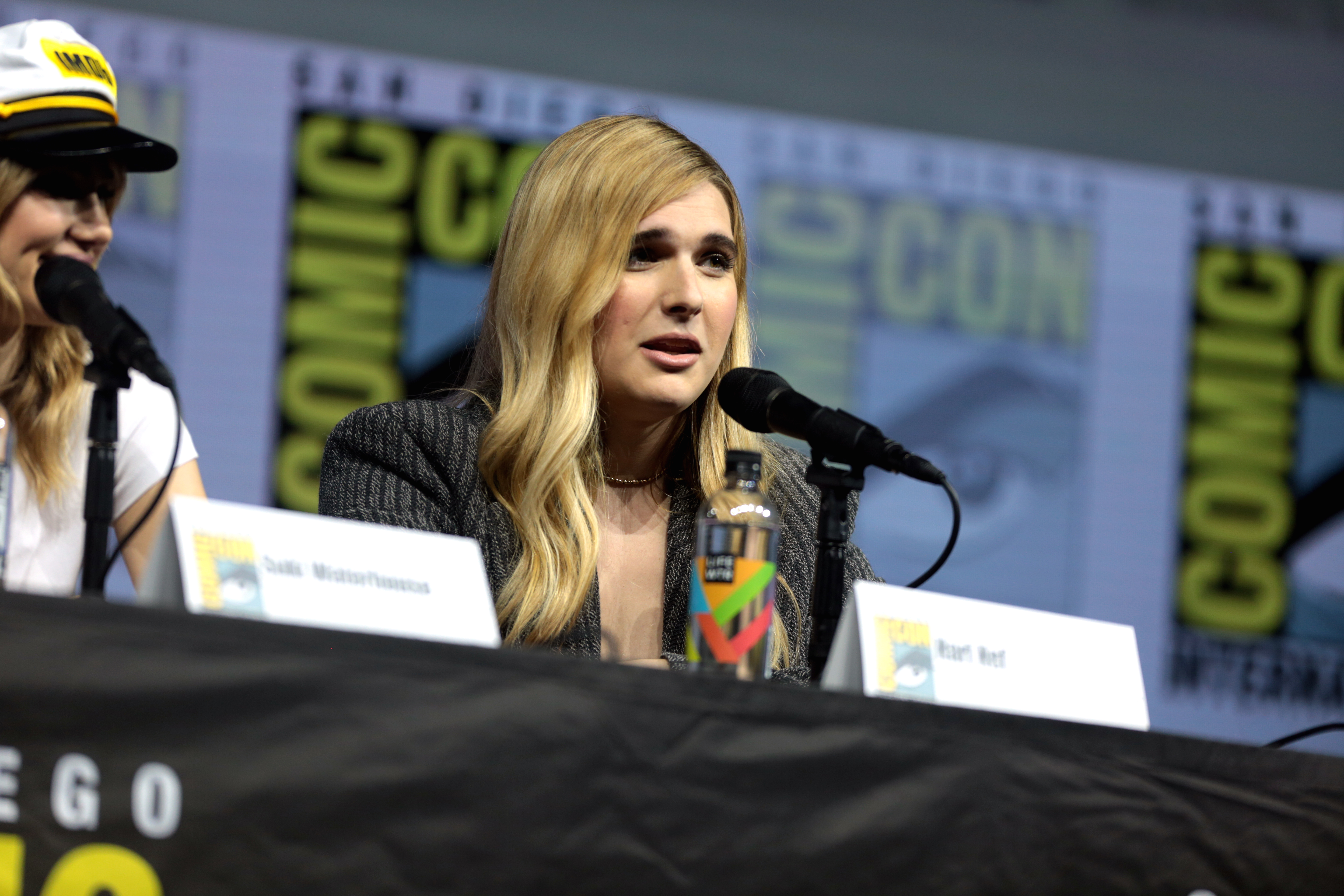 Hari Nef speaking at the 2018 San Diego Comic Con International, for "Assassination Nation", at the San Diego Convention Center in San Diego, California.